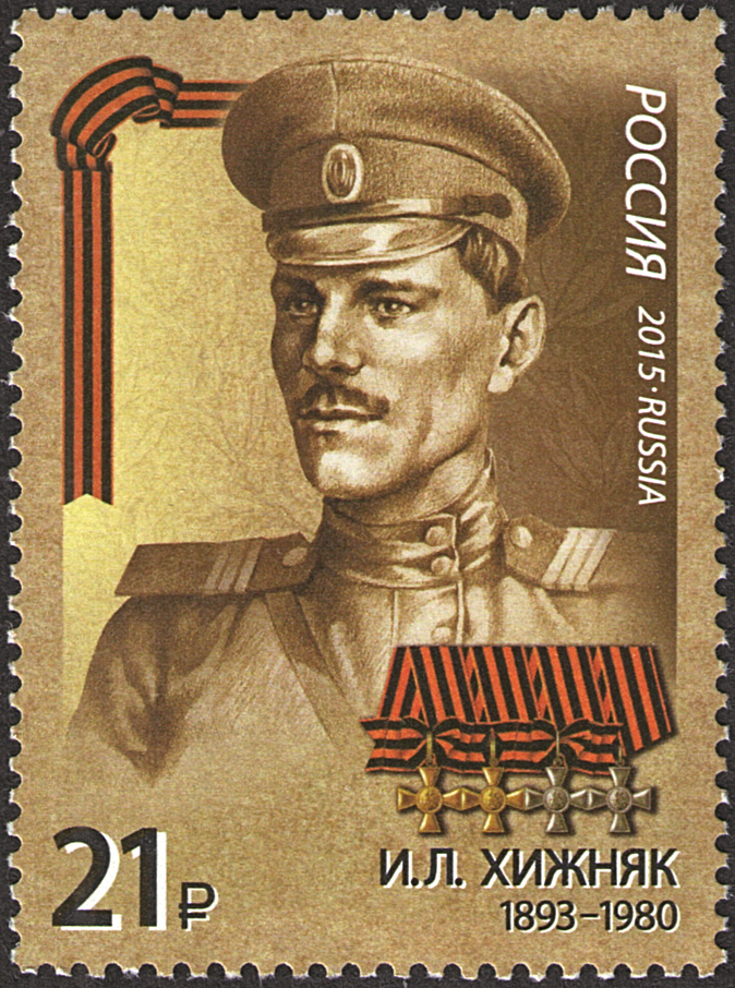 The History of World War I (the ongoing series, issue II). Heroes of World War I. Ivan Lukich Khizhnyak (1893—1980). The stamp of Russia, 21.00 ₽, 03 August 2015, PTC Marka Catalogue No. 1981, Michel No. 2194. Coated paper. Offset printing. Perforation: comb 11½:12. Size of the stamp: 37×50 mm. Print run: 385,000.